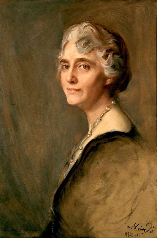 Oil on canvas portrait of First Lady Lou Henry Hoover by Richard Marsden Brown, after Philip Alexius de Laszlo de Lombos, 1950.